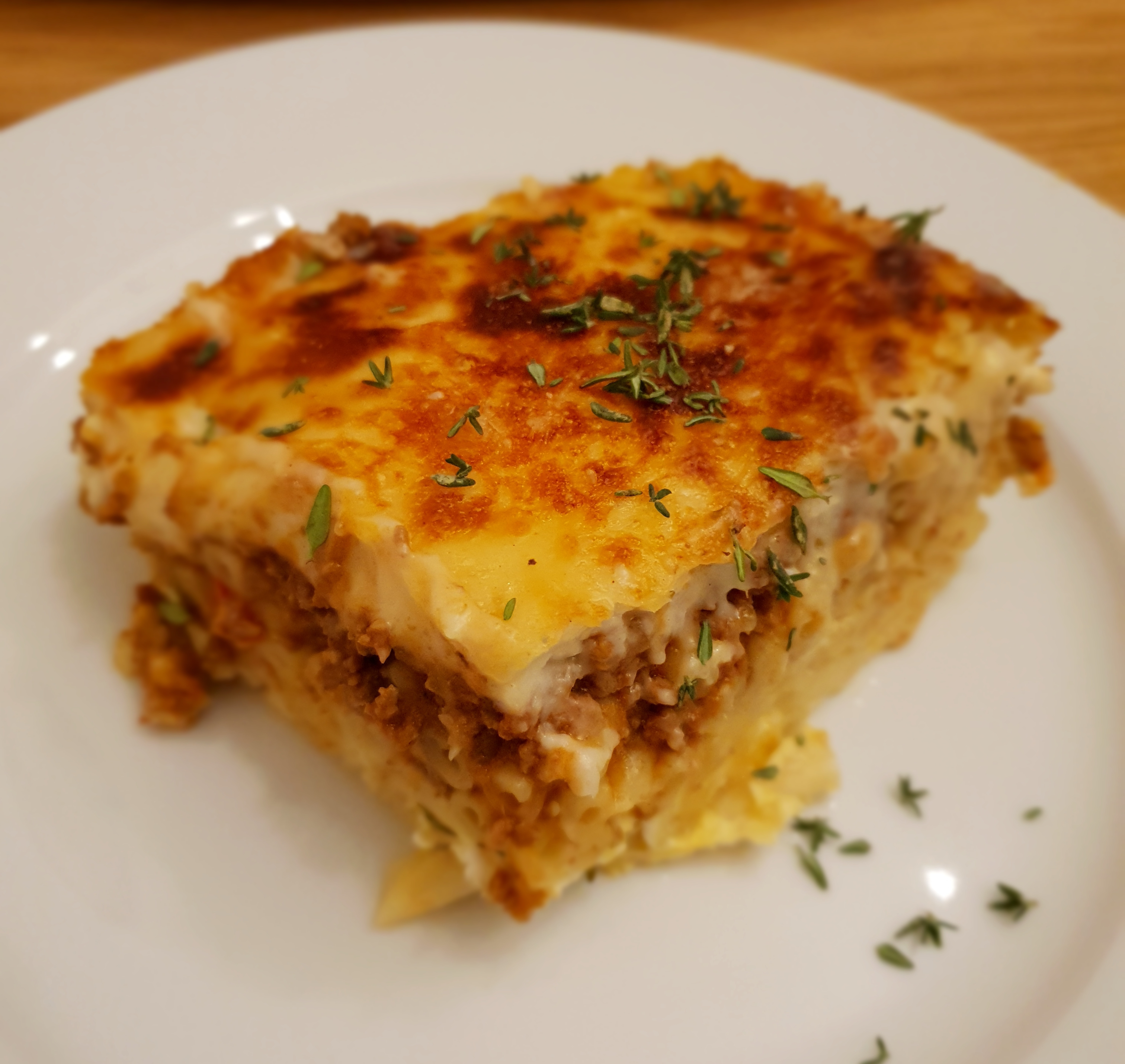 Homemade pastitsio following the recipe of Akis Petretzikis